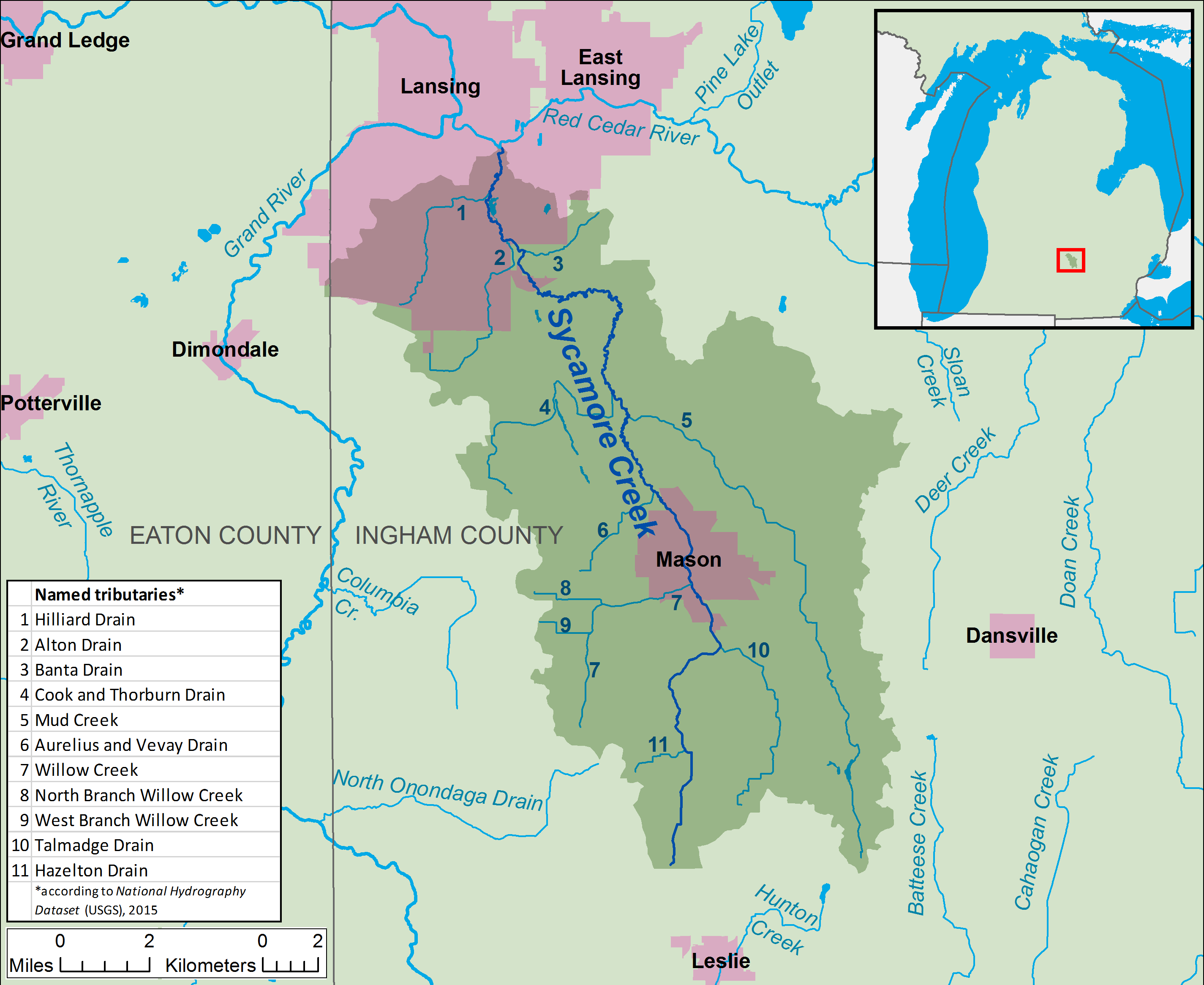 A map of Sycamore Creek and its watershed (USGS HUC-12 codes 040500040505, 040500040506, and 040500040507) in Ingham County, Michigan. Shown are named streams within the Sycamore Creek watershed (as identified using the National Hydrography Dataset) and major streams outside the watershed.